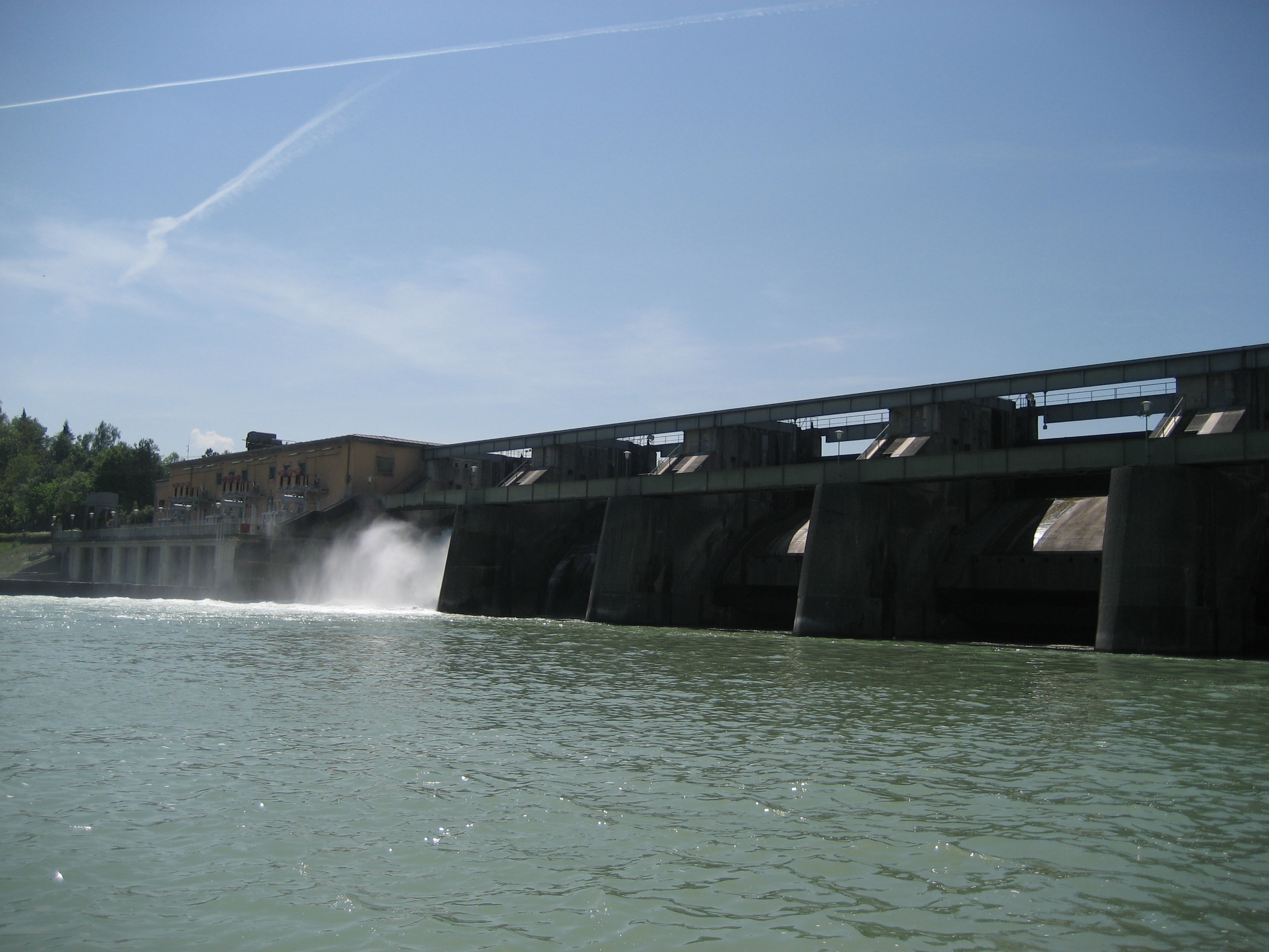 Hydroelectric power plant "Staning" on the river Enns, betwenn the villages Dietach (Upper Austria) and Haidershofen (Lower Austria). Austria, Europe.